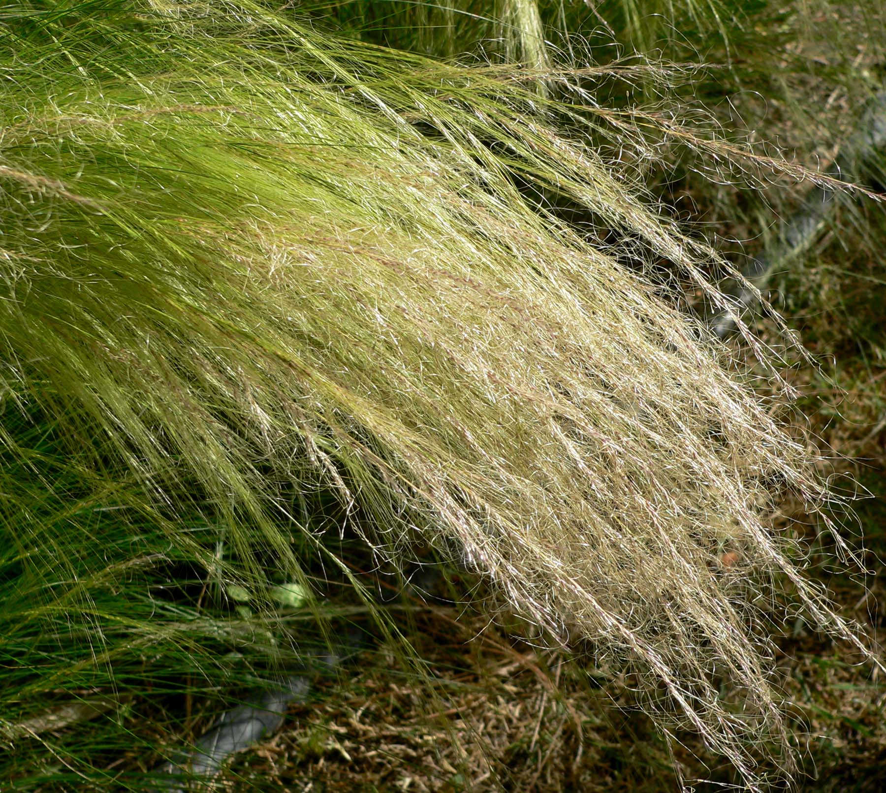 Photo of Nassella tenuissima (Mexican feather grass) at the Springs Preserve garden in Las Vegas, Nevada